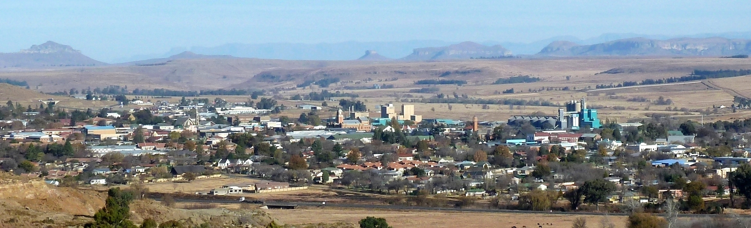 View over Harrismith in winter time